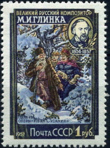 USSR stampː Scene from Opera A Life for the Tsar. Seriesː 100th Death Anniversary of Mikhail Glinka, the fountainhead of Russian classical music (1804-1857)